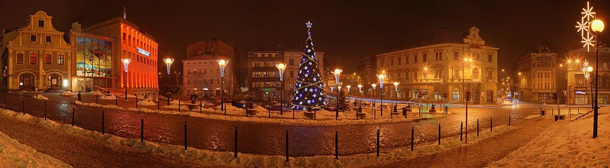 Panoramic view of Bolesław Chrobry Square in Bielsko-Biała, Poland with Christmas decorations.